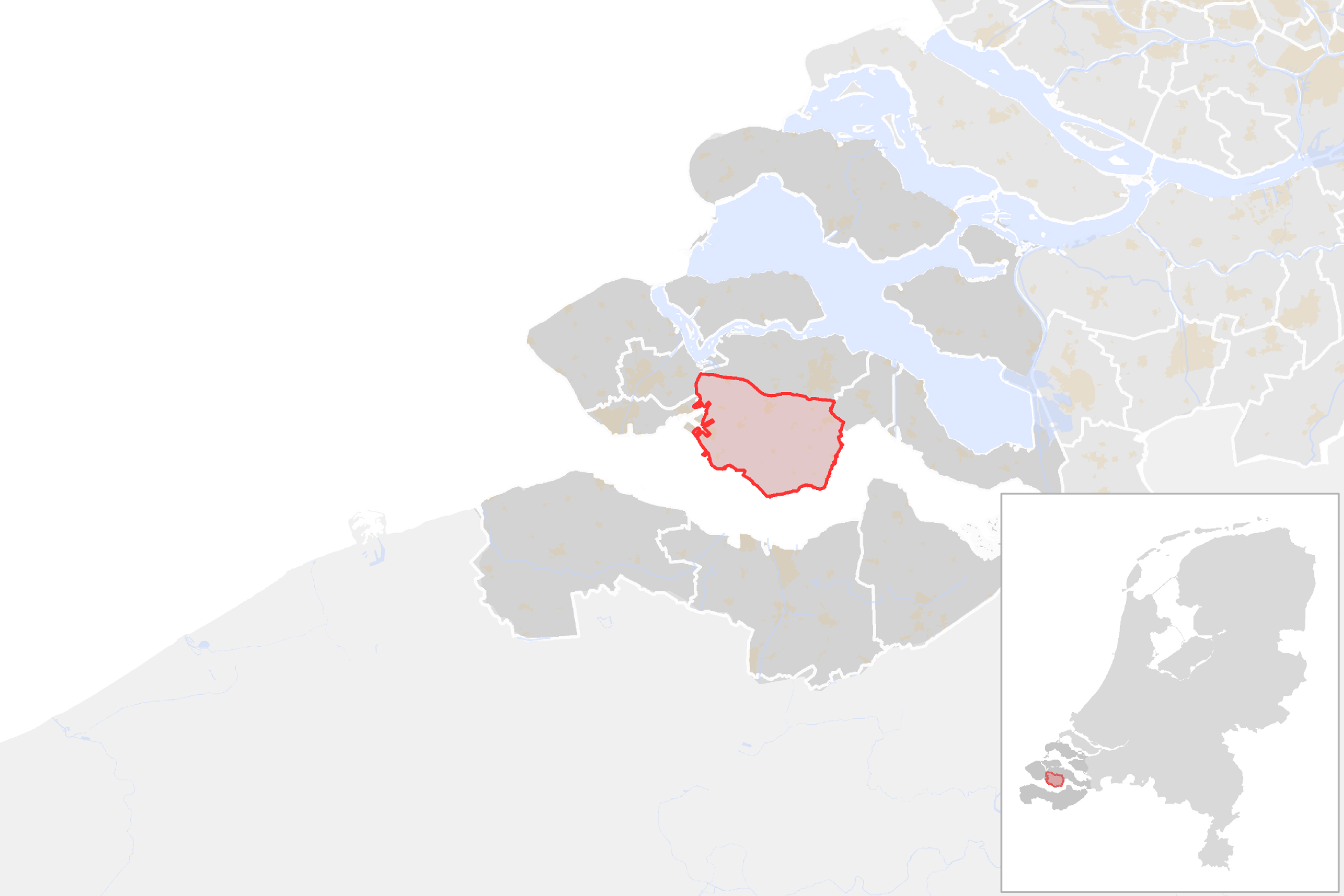 Locator map showing municipality boundary of one of the 390 Dutch municipalities (as of 2016)